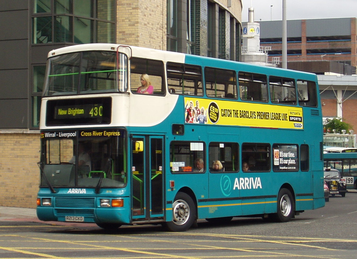 DAF DB250 with Northern Counties Palatine 2 bodywork